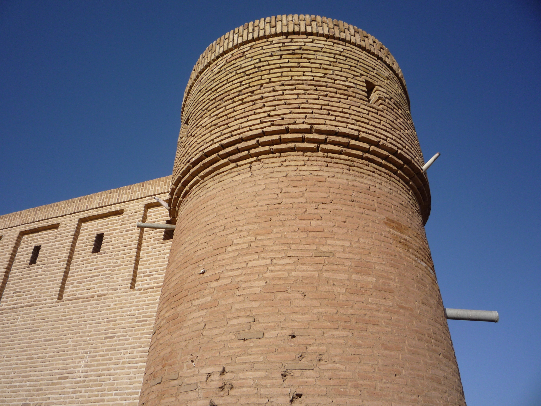 Maranjab Castle - in Isfahan, Iran.